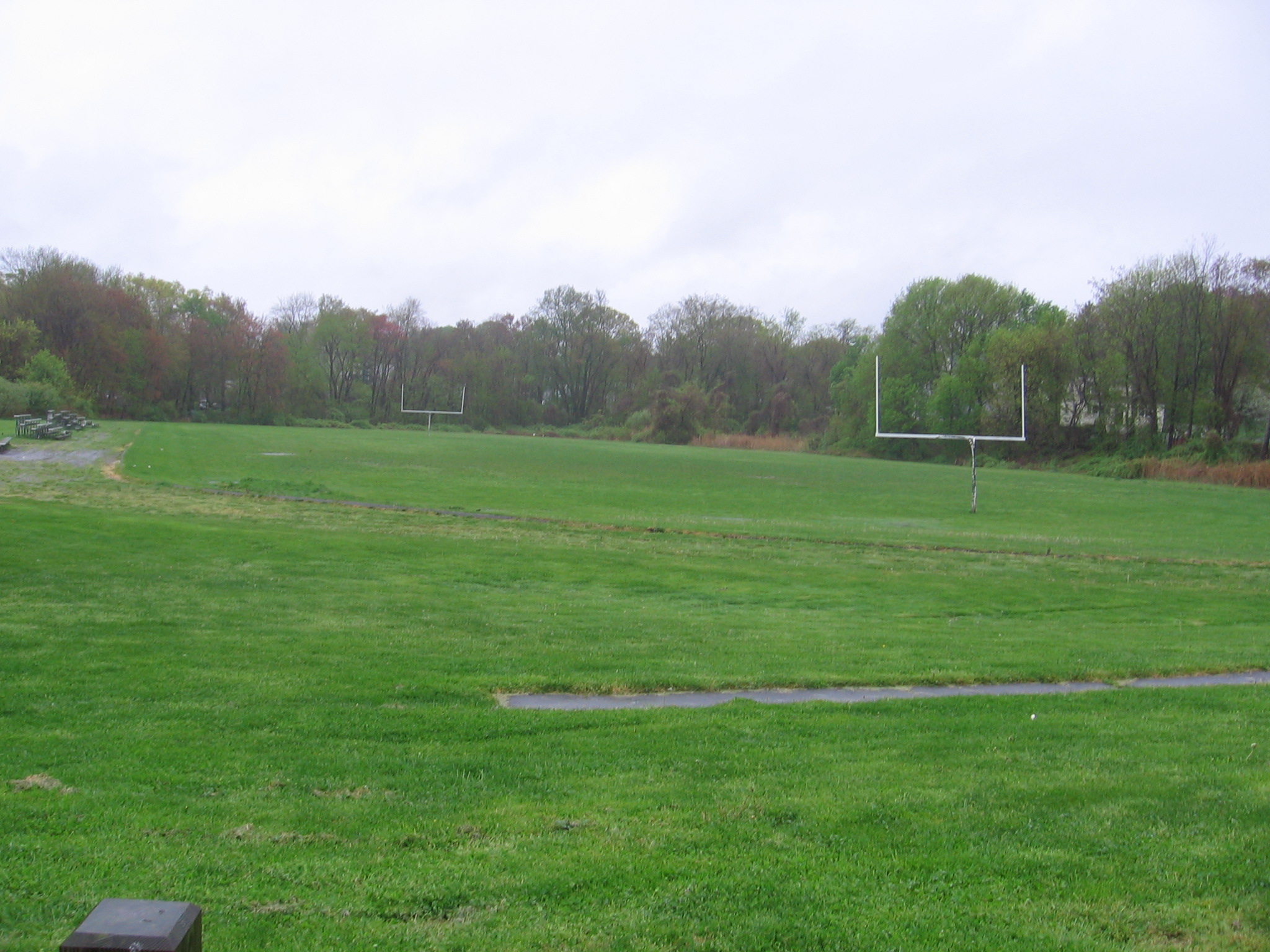 Andrews Field, formerly used by Norwalk High School athletics, is now used for band practice by the Marching Bears as well as the home field of the Connecticut Wildcats rugby league team.